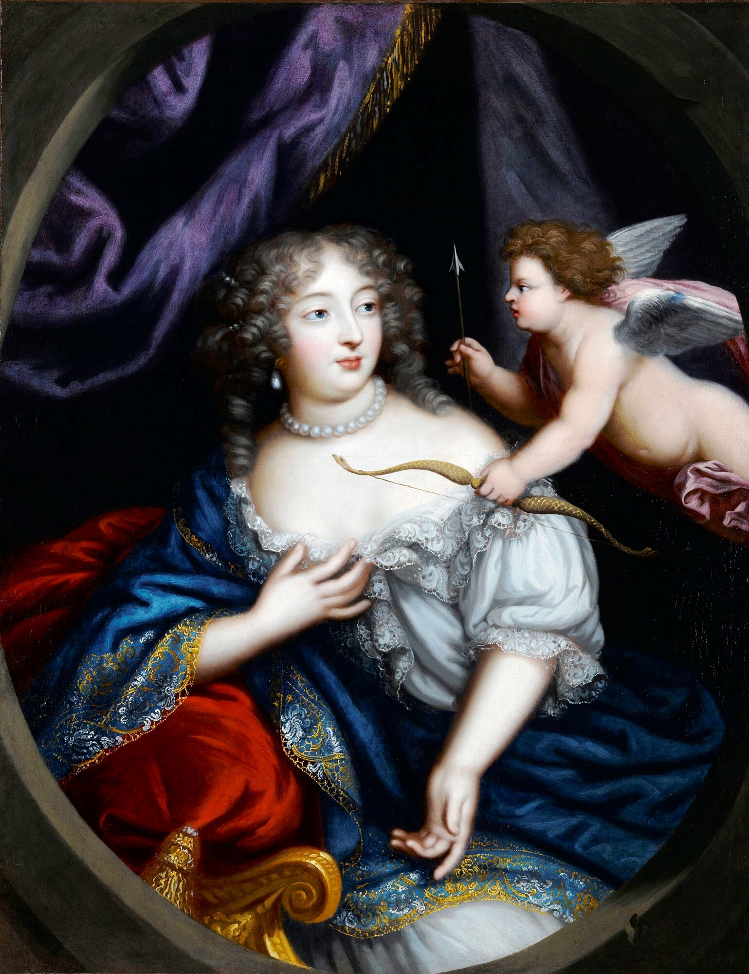 copy